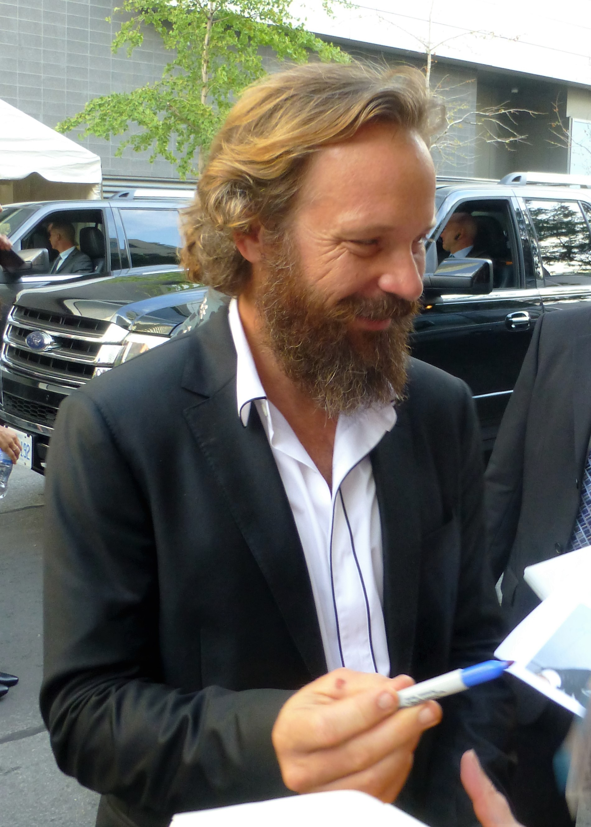 Peter Sarsgaard at the press conference of The Magnificent Seven, 2016 Toronto Film Festival